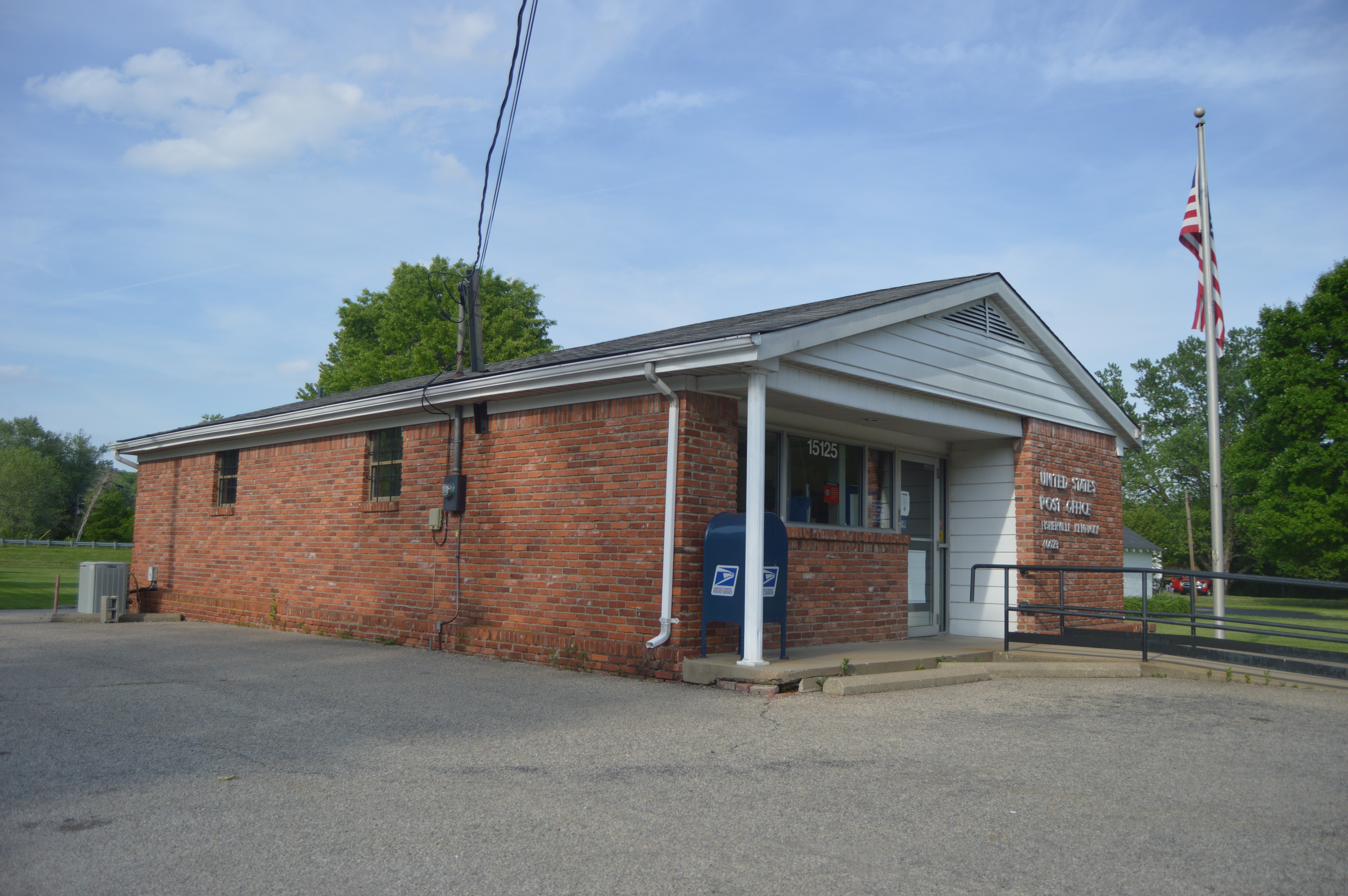 Front of the post office in the Fisherville neighborhood of Louisville, Kentucky, United States, located at 15125 Old Taylorsville Road.